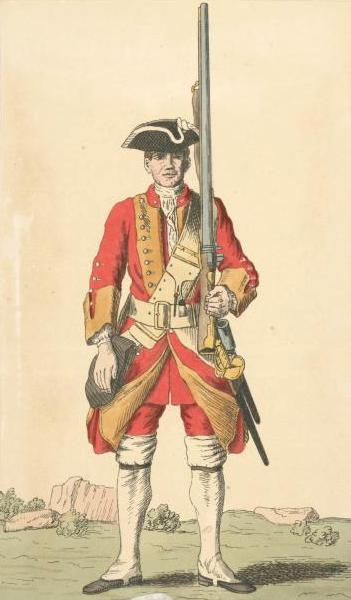 Soldier of the 45th regiment (1742)